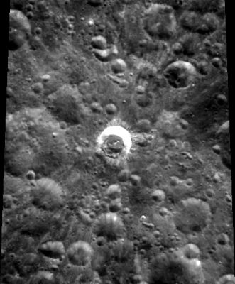 Ray crater Moore F from Clementine